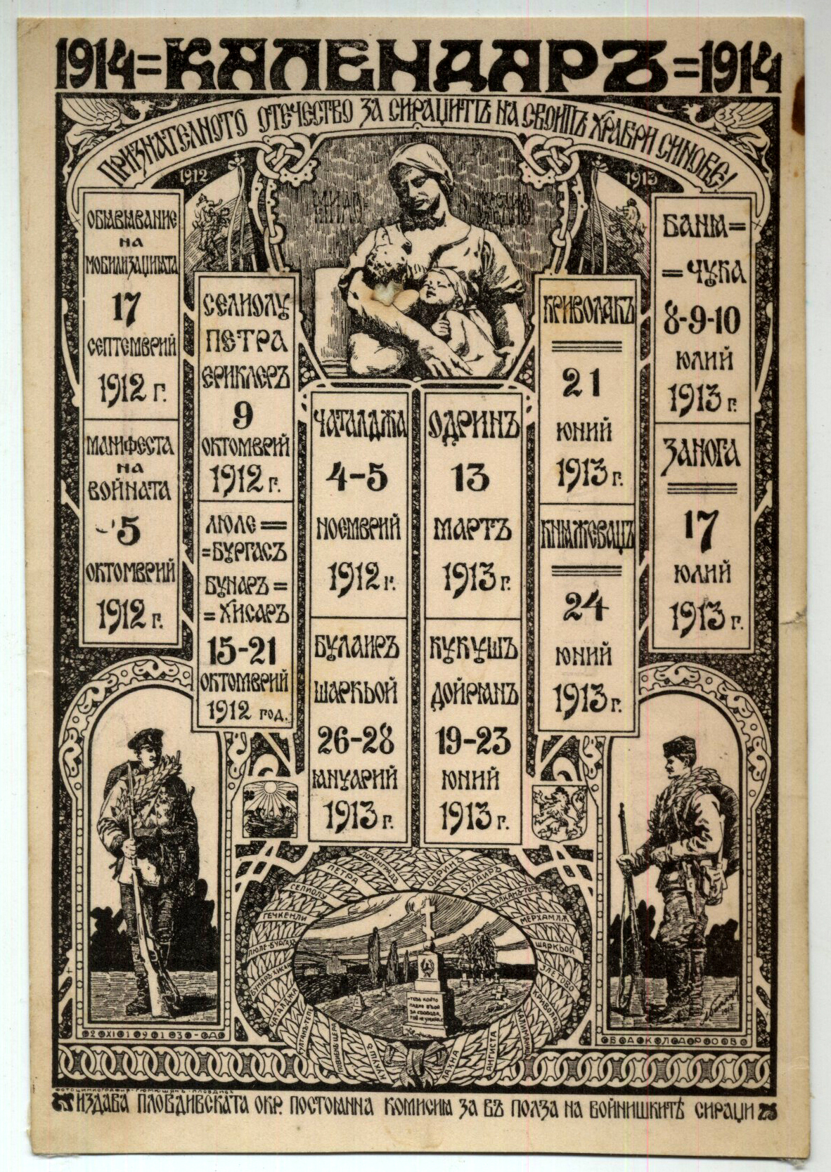 Calendar for 1914